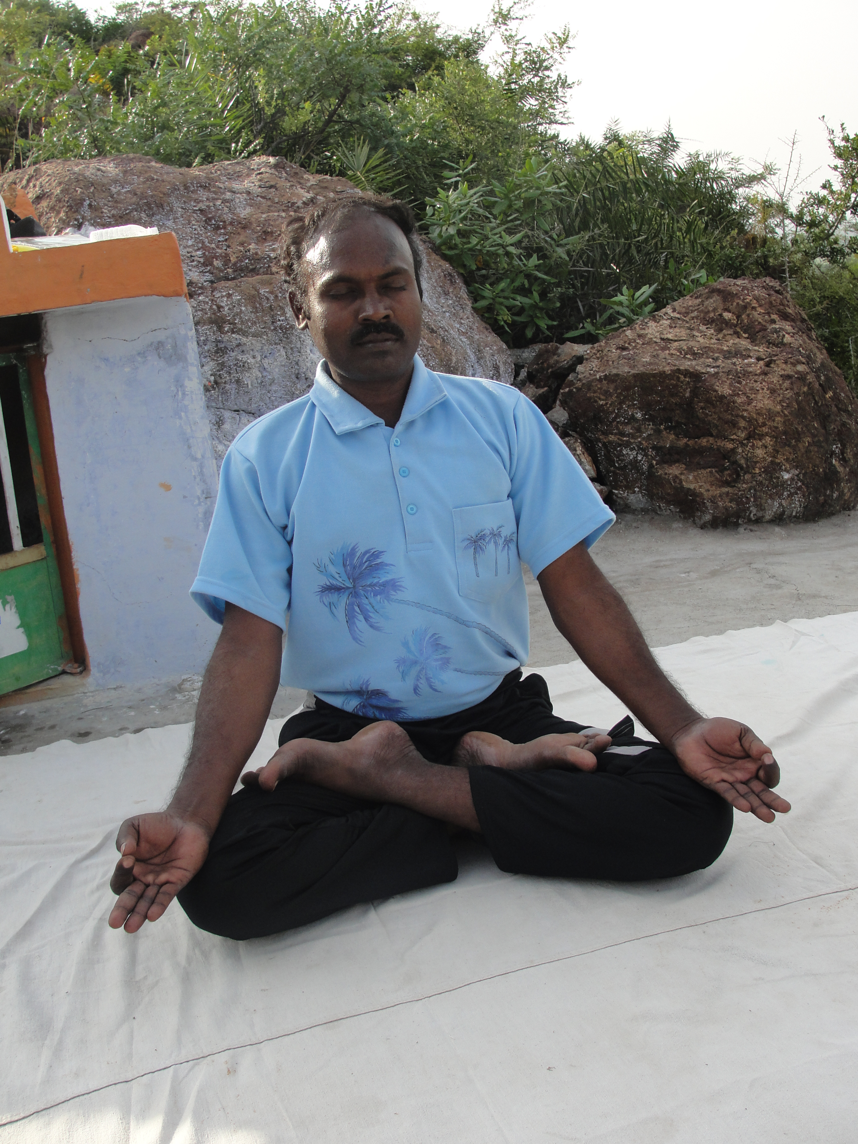 An art of of Padmasana